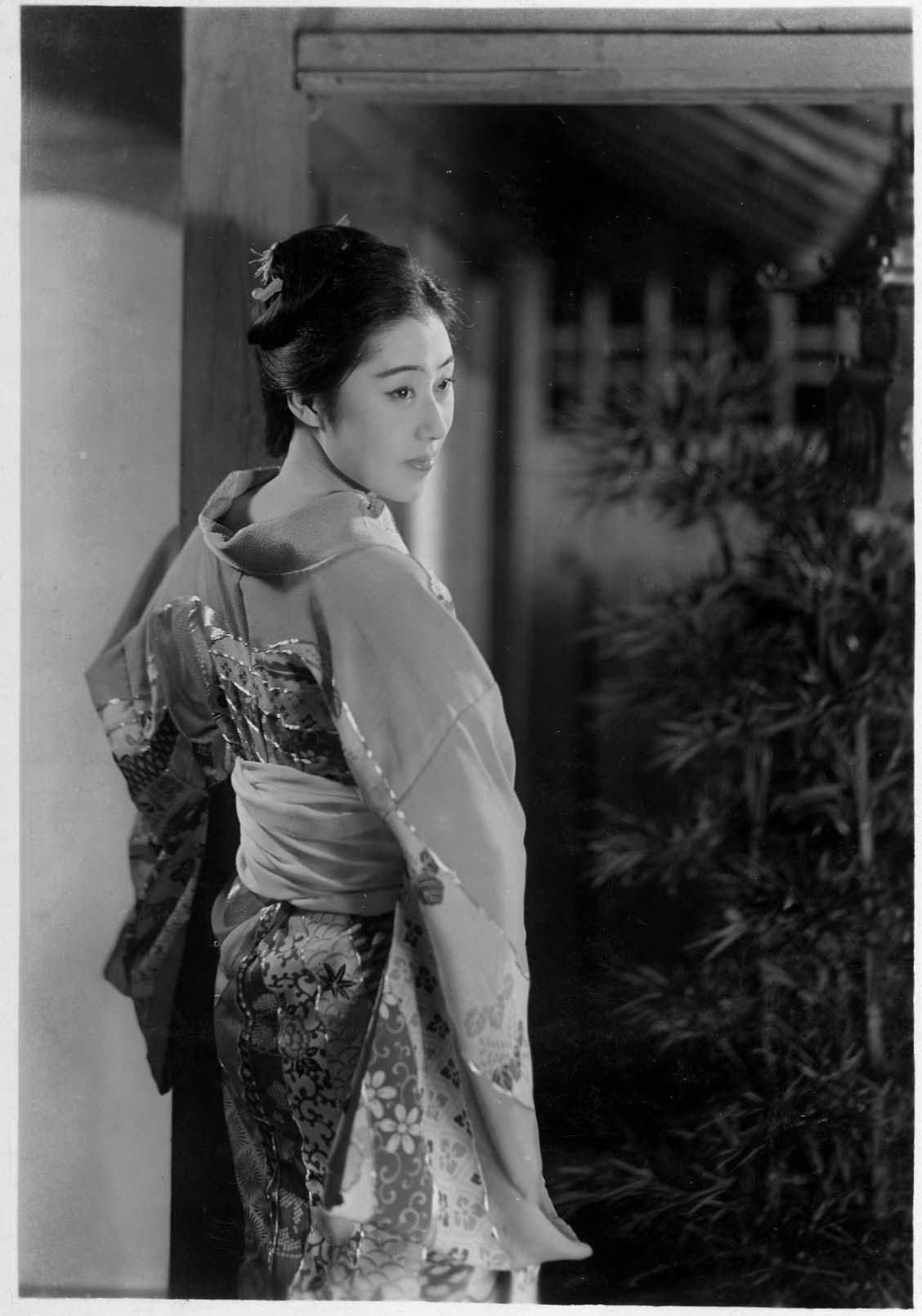 Isuzu Yamada in Orizuru Osen (折鶴お千) directed by Kenji Mizoguchi - 1935